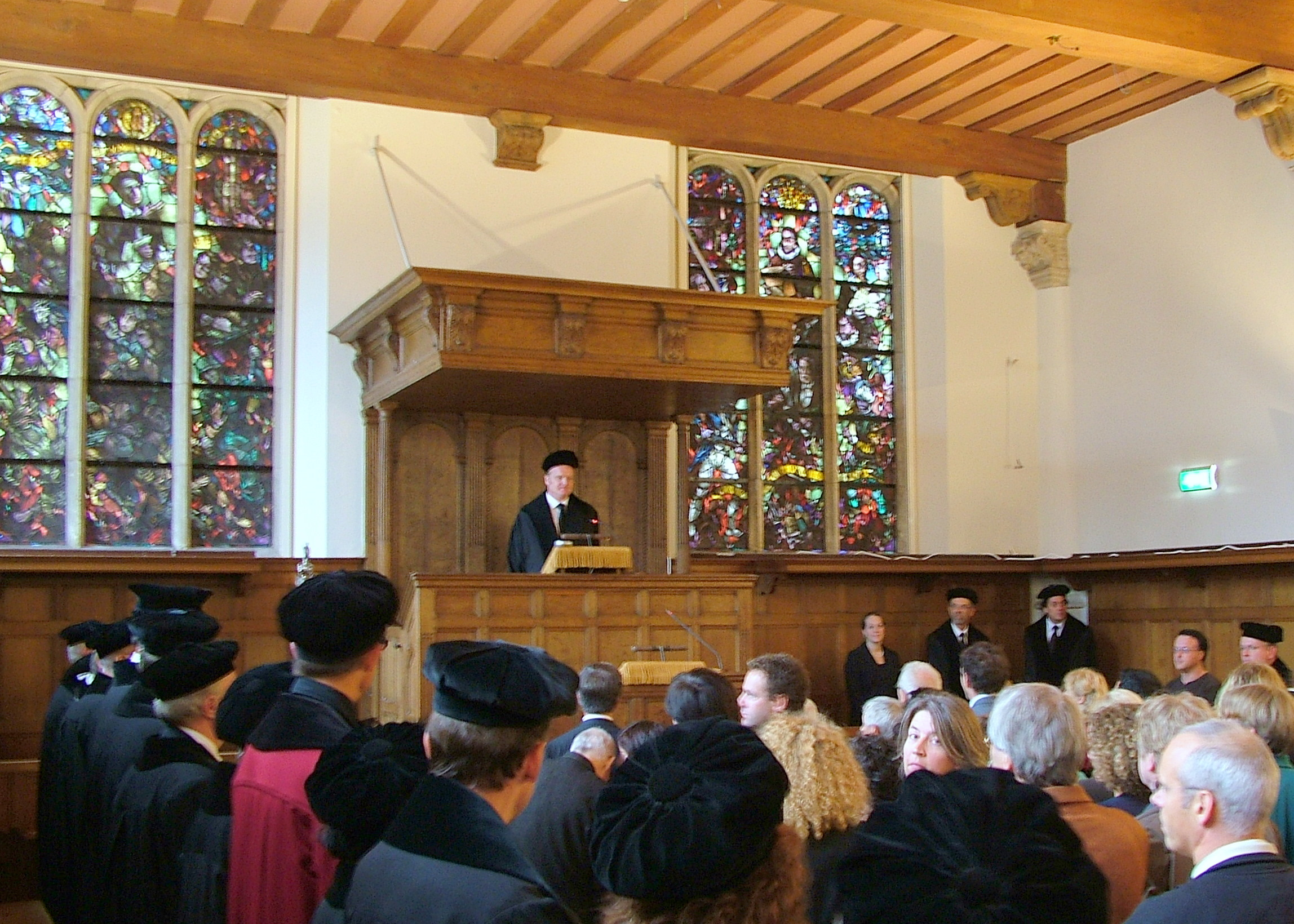 Inaugural lecture De duivel zit in het verschil tussen d en t by Marc van Oostendorp, professor Dutch language and literature with focus on Fonological microvariation, Akademiegebouw Leiden University, Rapenburg, Leiden, 4.00 PM 12 September 2008.